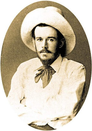 John Peter Russell (1858–1930), Australian impressionist painter